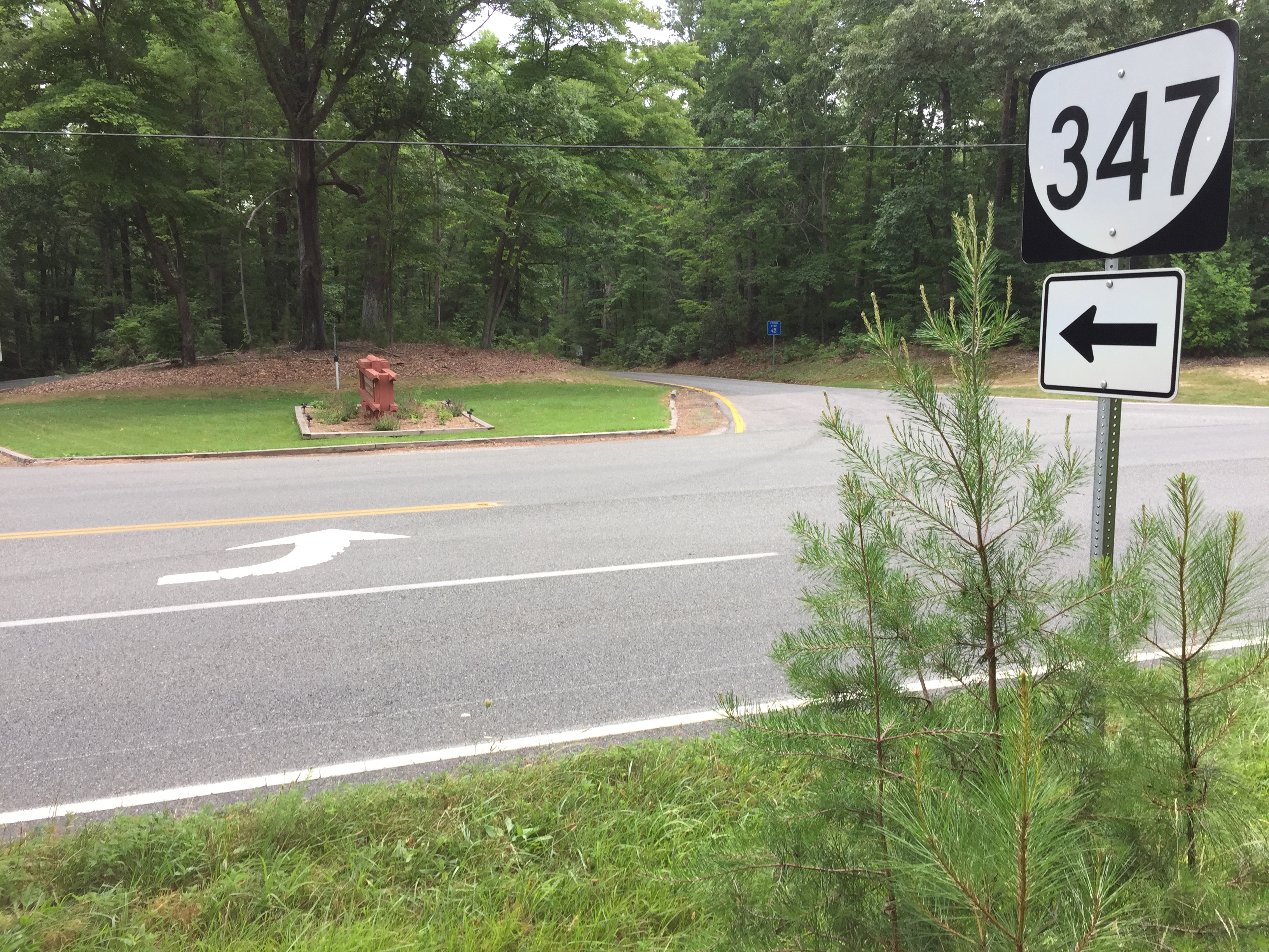 View north along Virginia State Route 347 (State Park Road) at Virginia State Route 3 (Kings Highway) at the entrance to Westmoreland State Park in Baynesville, Westmoreland County, Virginia